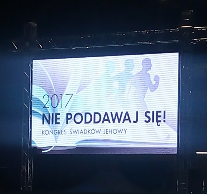 District convention of Jehovah's Witnesses (Wrocław, Poland, 2017)